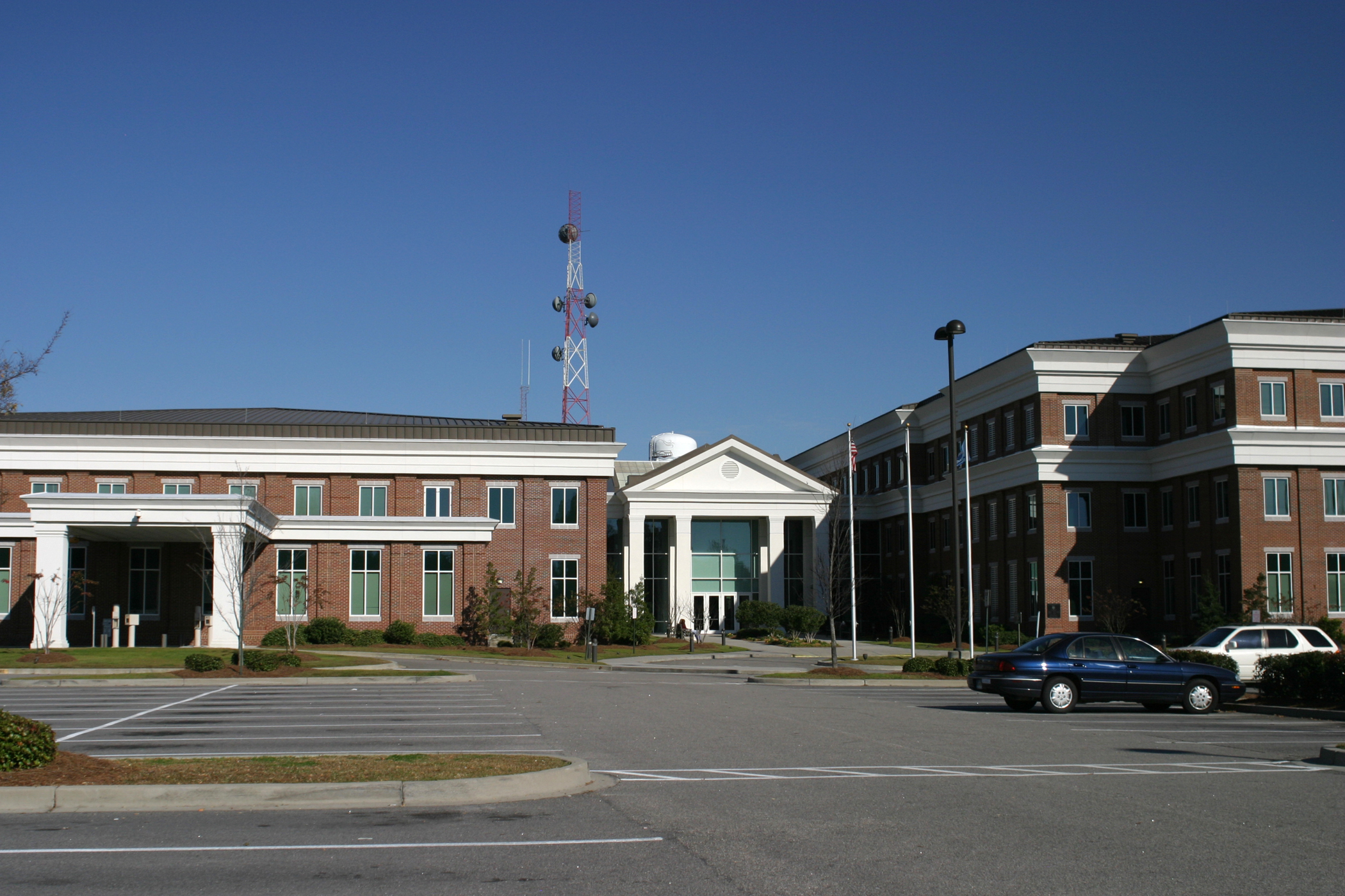 New Horry County Courthouse and county office complex, Conway, South Carolina